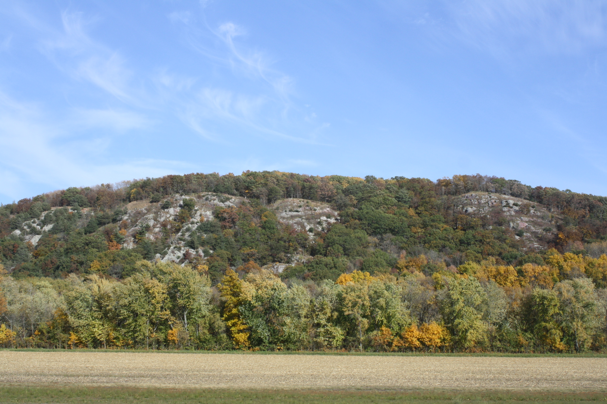 The Baraboo Range with fall colors from Wisconsin Highway 33. Taken in the Lower Narrows.